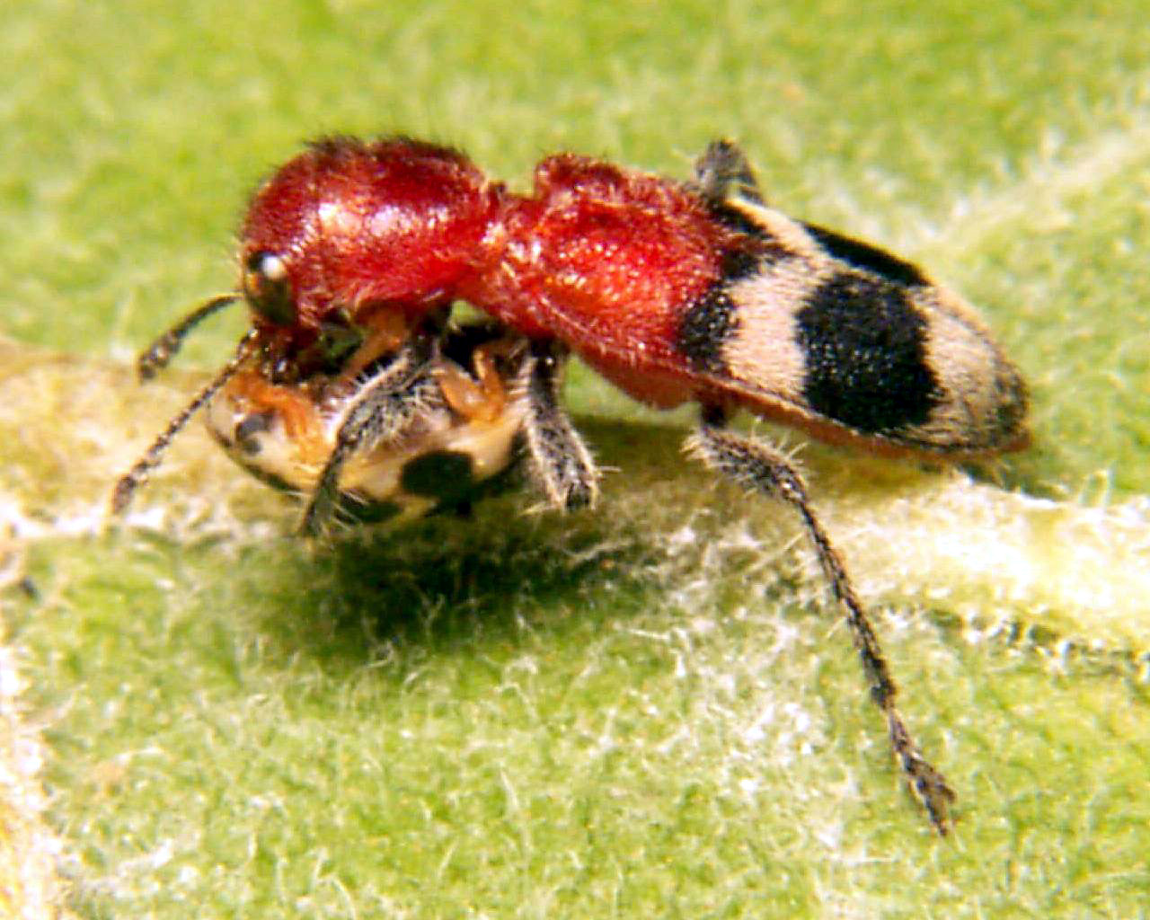 Beetle in the Coleoptera family Cleridae attacks a lady beetle. McKee Marsh, West Chicago, Illinois, USA.